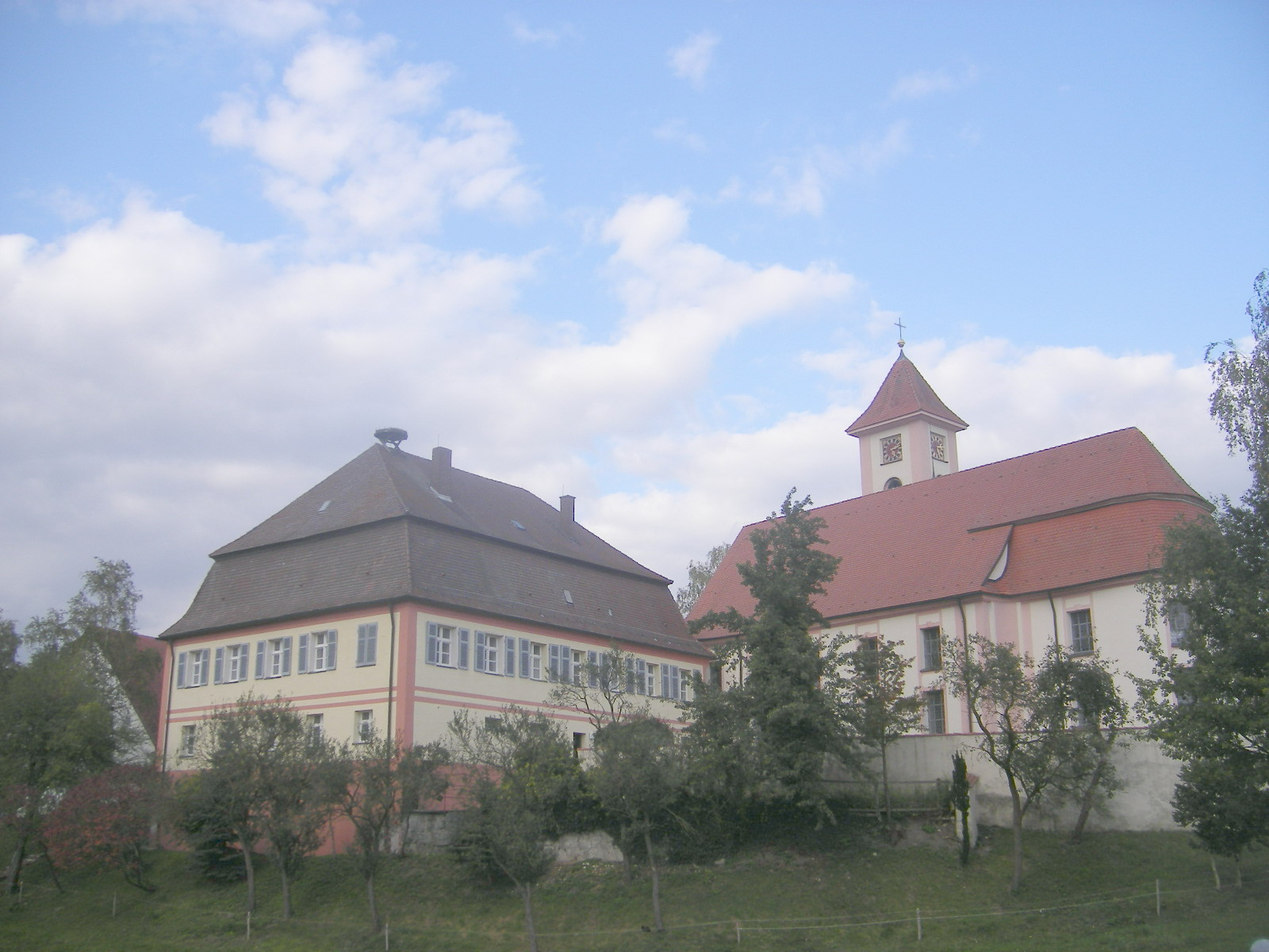 Zell (Riedlingen municipality)